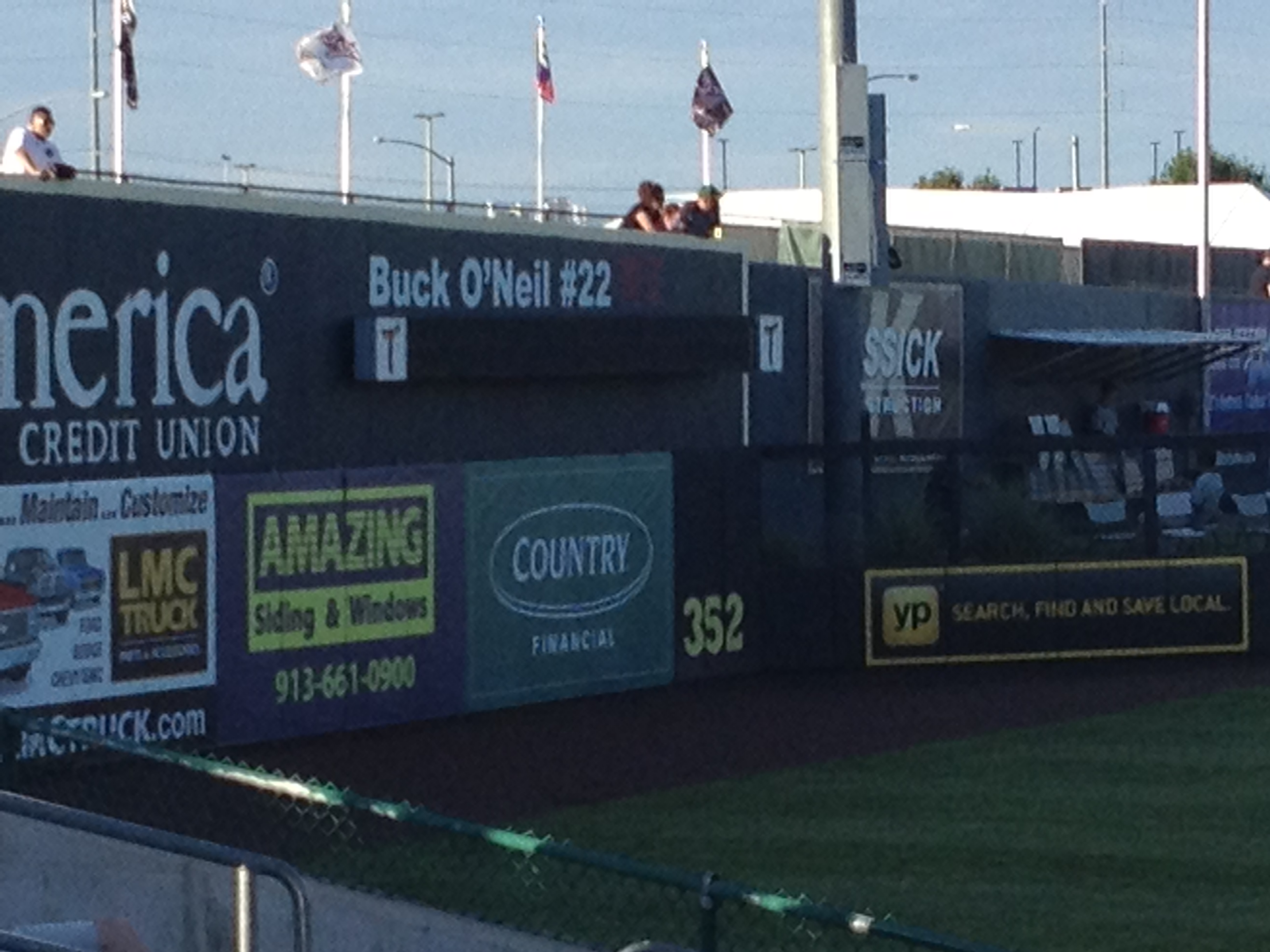 Left field wall of Community America Ballpark in Kansas City, Kansas